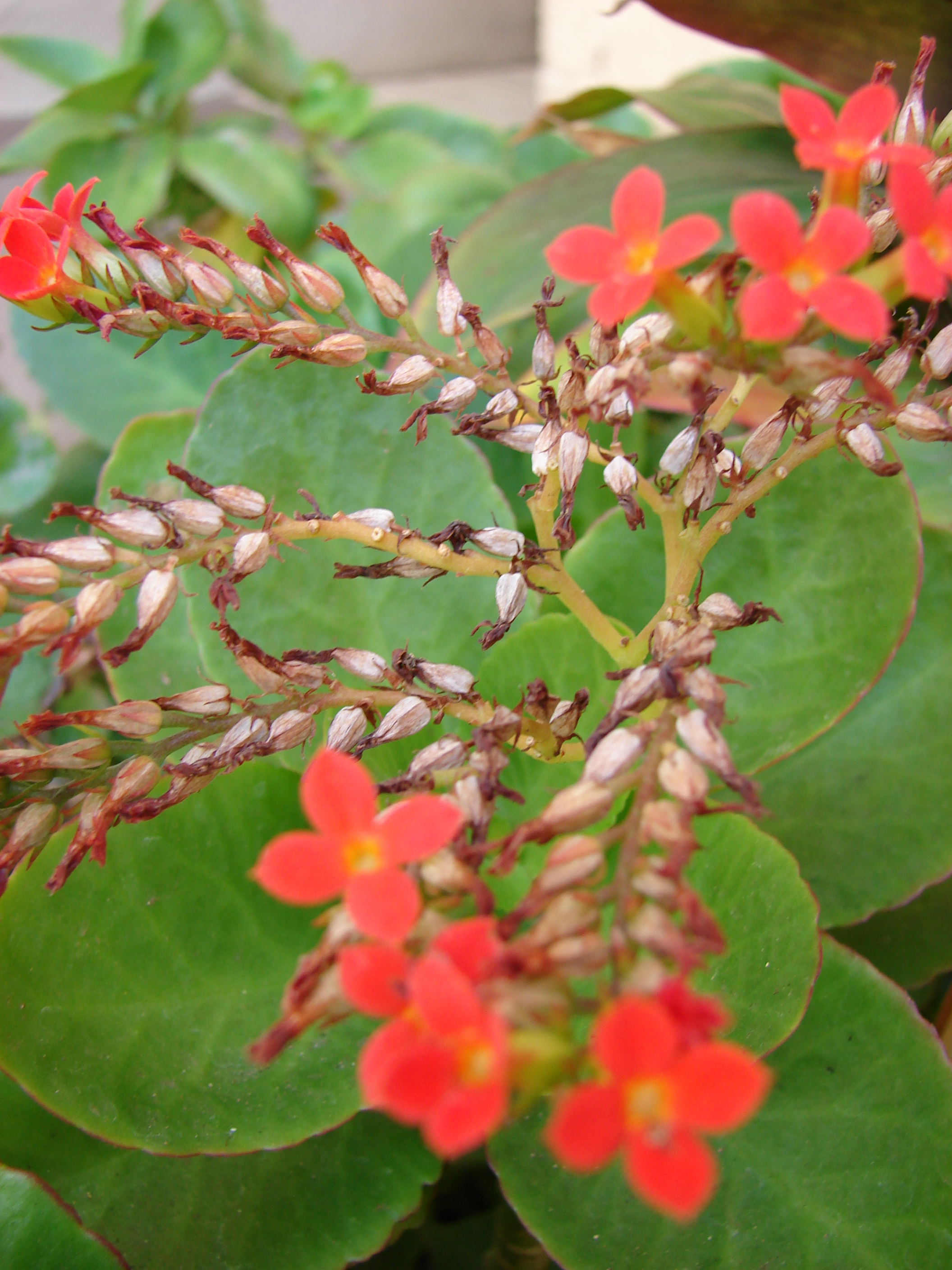 Kalanchoe blossfeldiana (flowers). Location: Maui, Wailuku